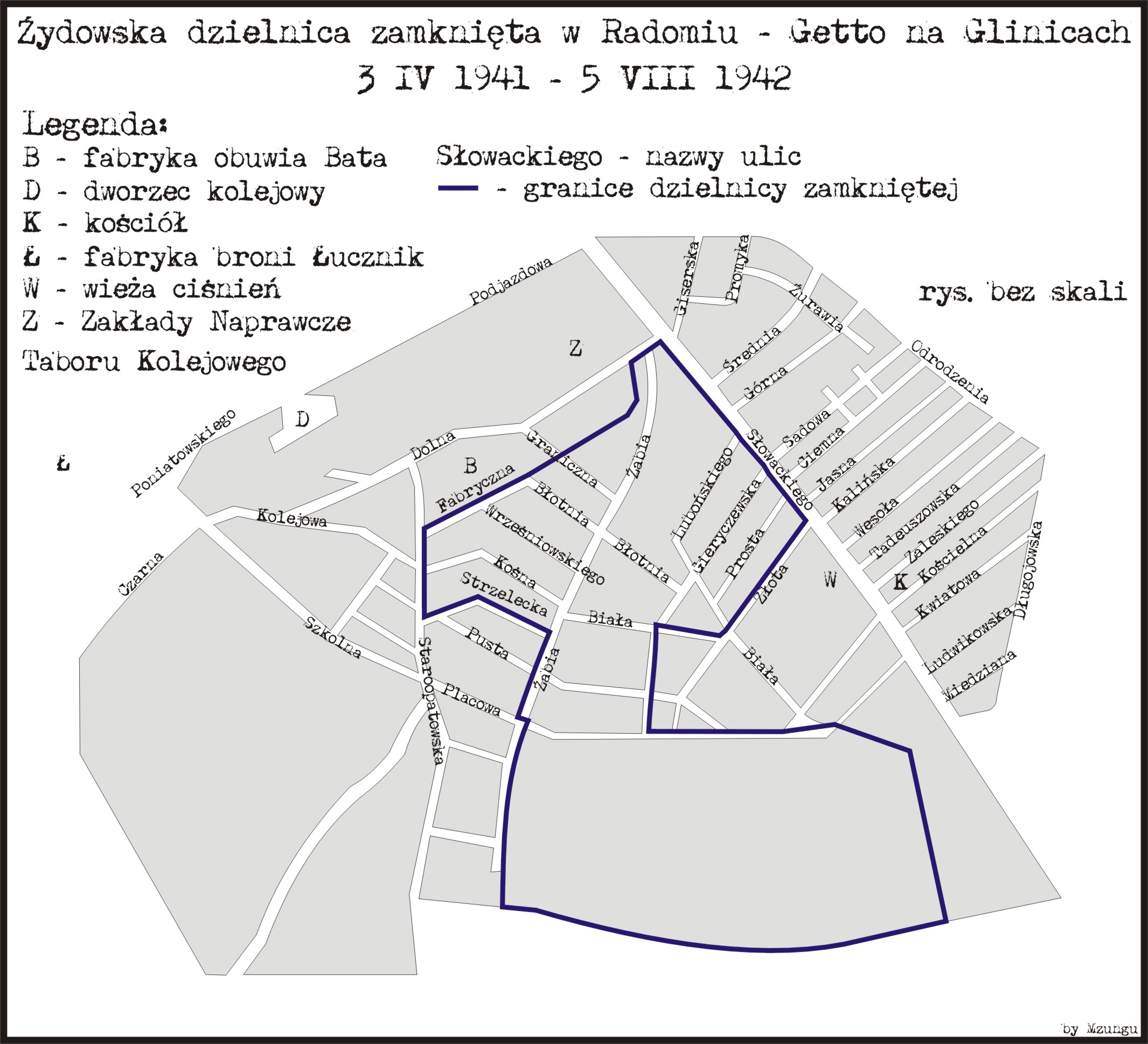 Jewish quarter in Radom - Glinice, so called "Little ghetto"